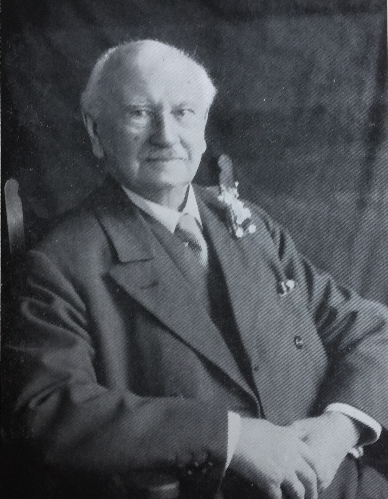 Photograph of William Morton (theatre manager) memoir frontispiece